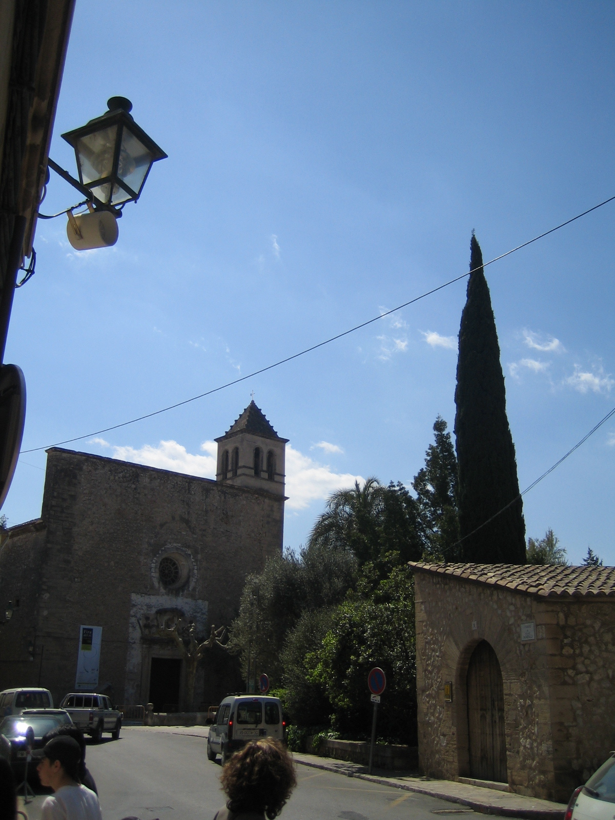 Kirche Nostra Senyora del Roser in Pollenca